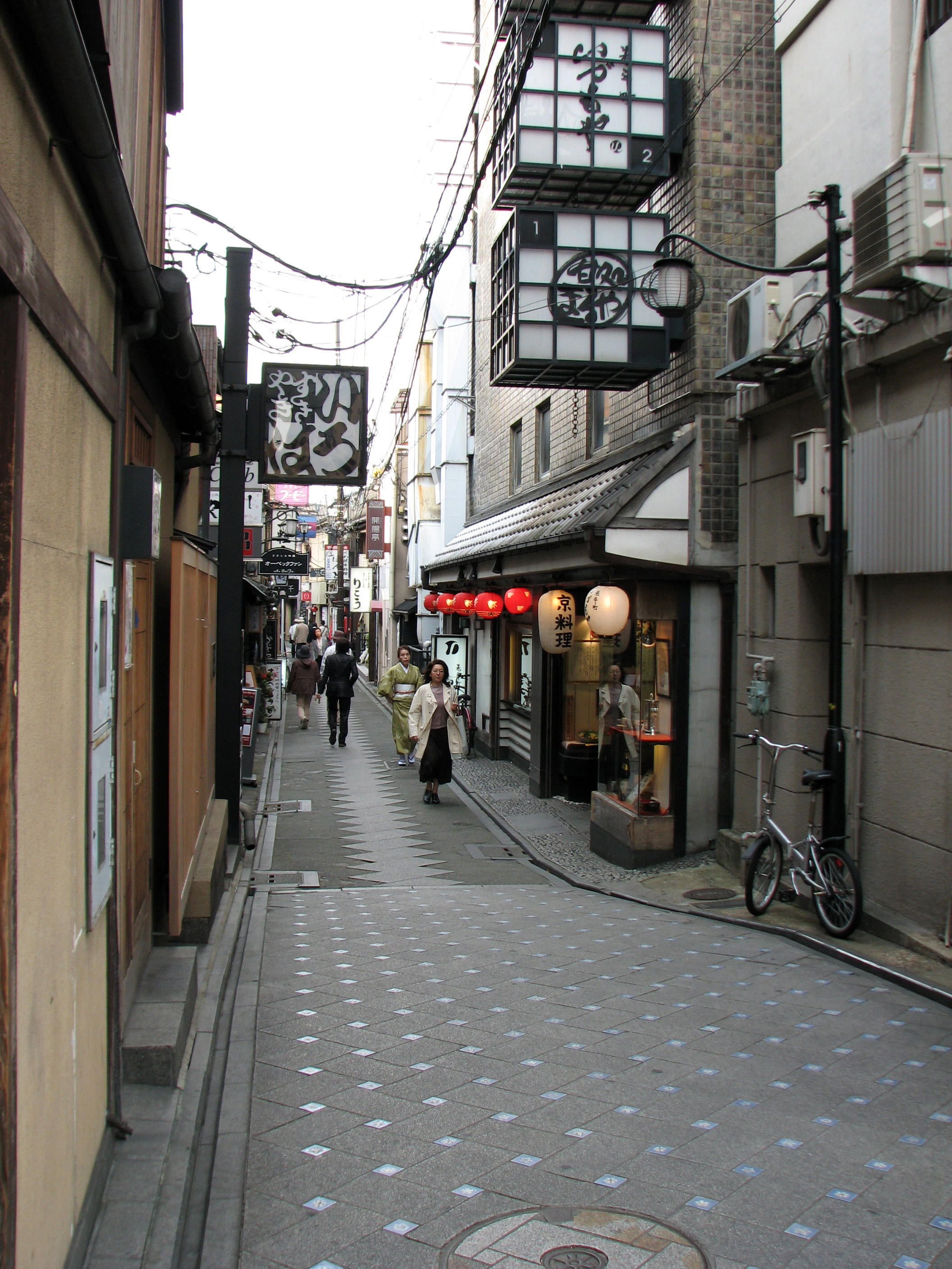 One of Kyoto's Geisha districts. Not quite as prestigious as Gion, but still very swank. I've been to a couple of restaurants along this street - they're pricey, but worth it, especially in the summer when they put out the balconies on the riverbank.